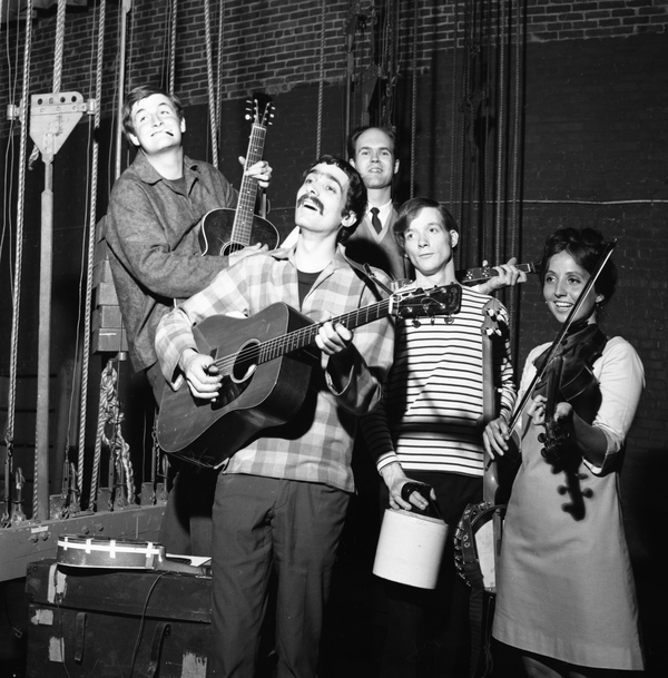 Jim Kweskin Jug Band in Tallahassee.